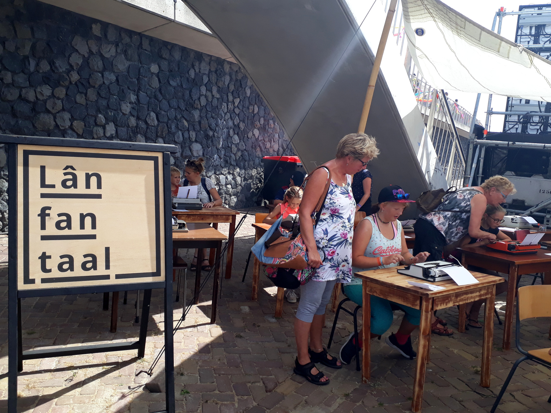 The Editorial Room in Harlingen at the Tall Ship Races 2018